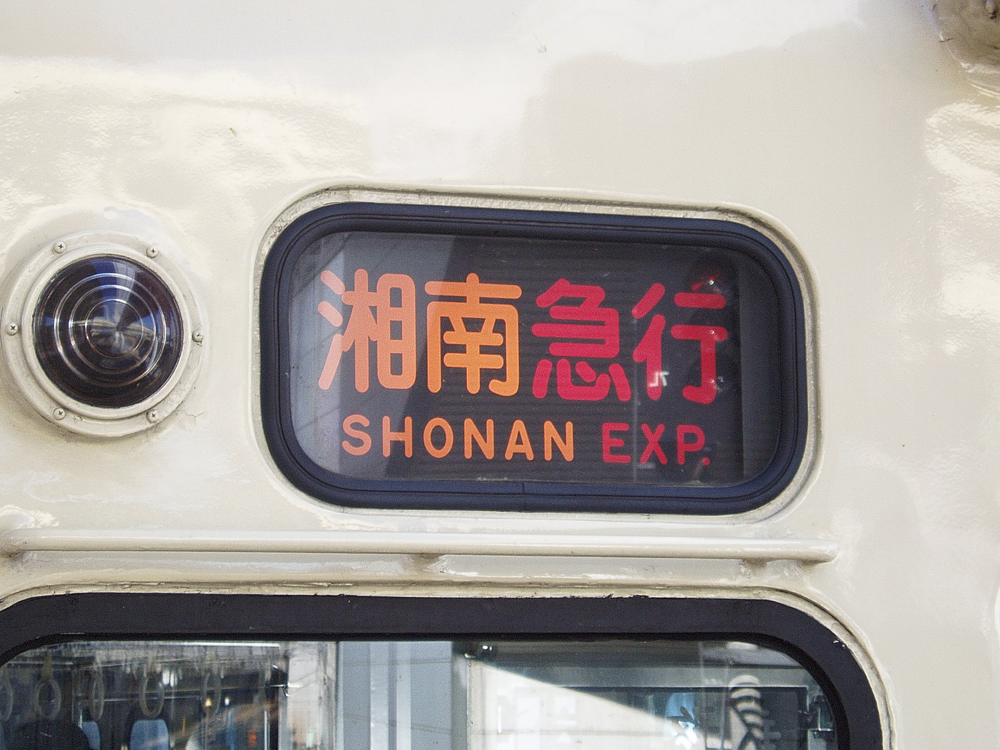 Information boards Shonan Express